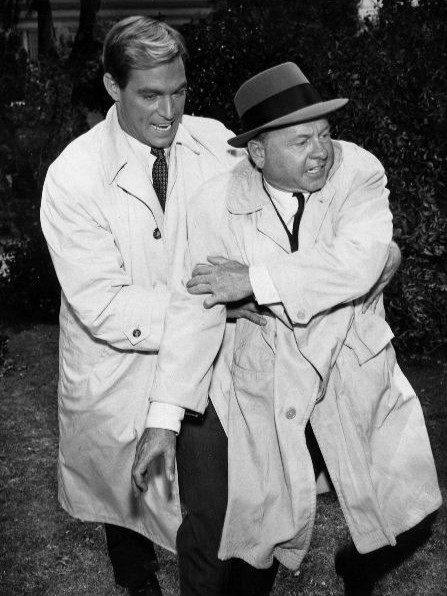 Photo of James Franciscus and guest star Mickey Rooney from the television program The Investigators. In this episode, Rooney plays a man whose love was rejected by the girl of his dreams and he resorts to murder.